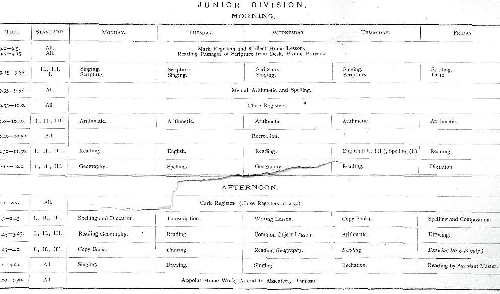 JF Gladman's Junior Division Large School Timetable 1885